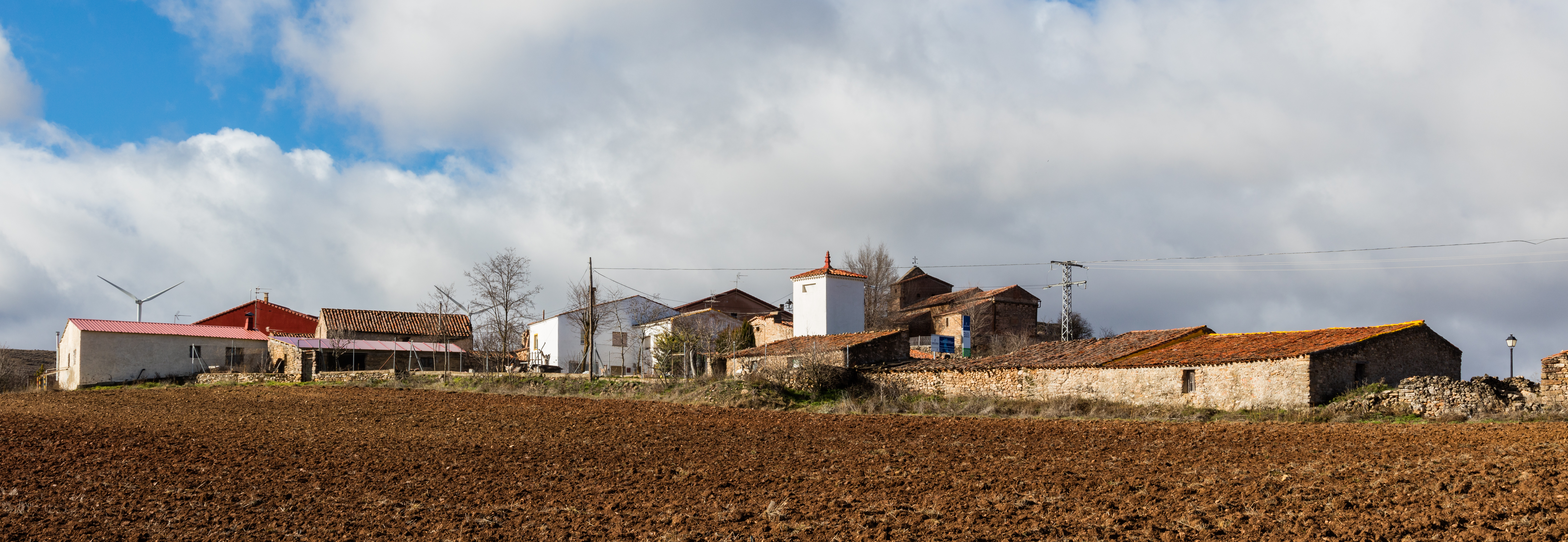 Tobillos, Guadalajara, Spain